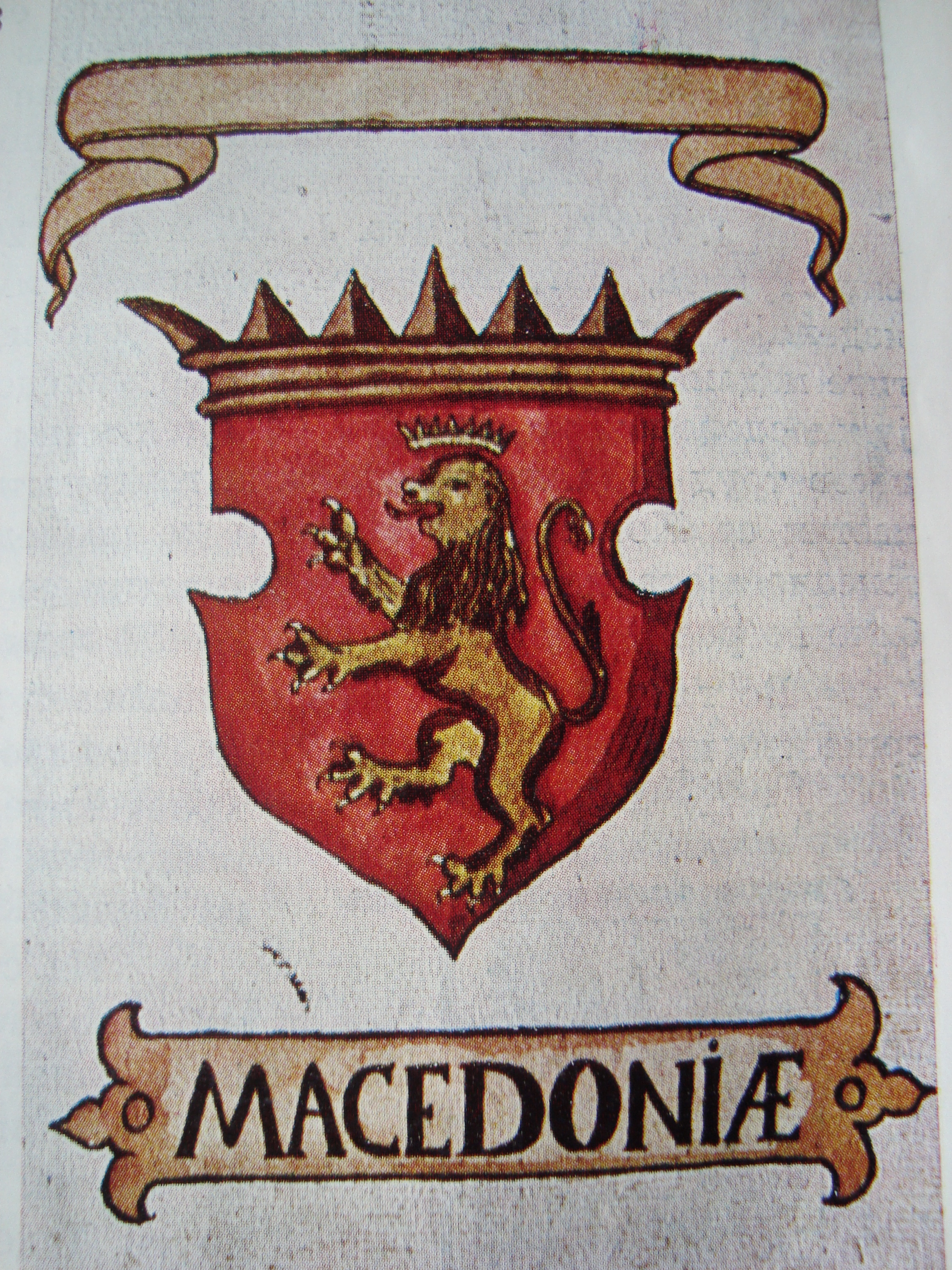 Coat of arms of Macedonia from the Fojnica Armorial.